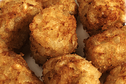 These are what tater tots look like.